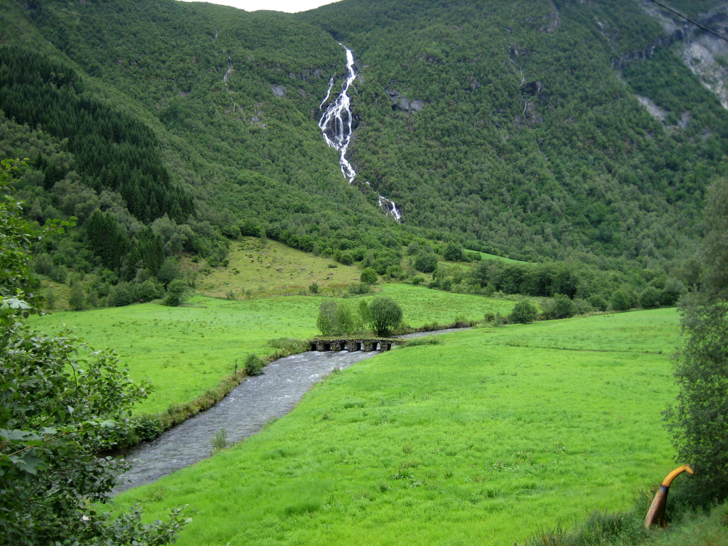 The Norang valley is often described as "one of the wildest and narrowest in Norway". Most of it is quite dark and grim. This picture is from the northern end of the valley, near the village of Øye where the valley becomes wider and more welcoming. The stone bridge is also uncharacteristic - possibly British influence.